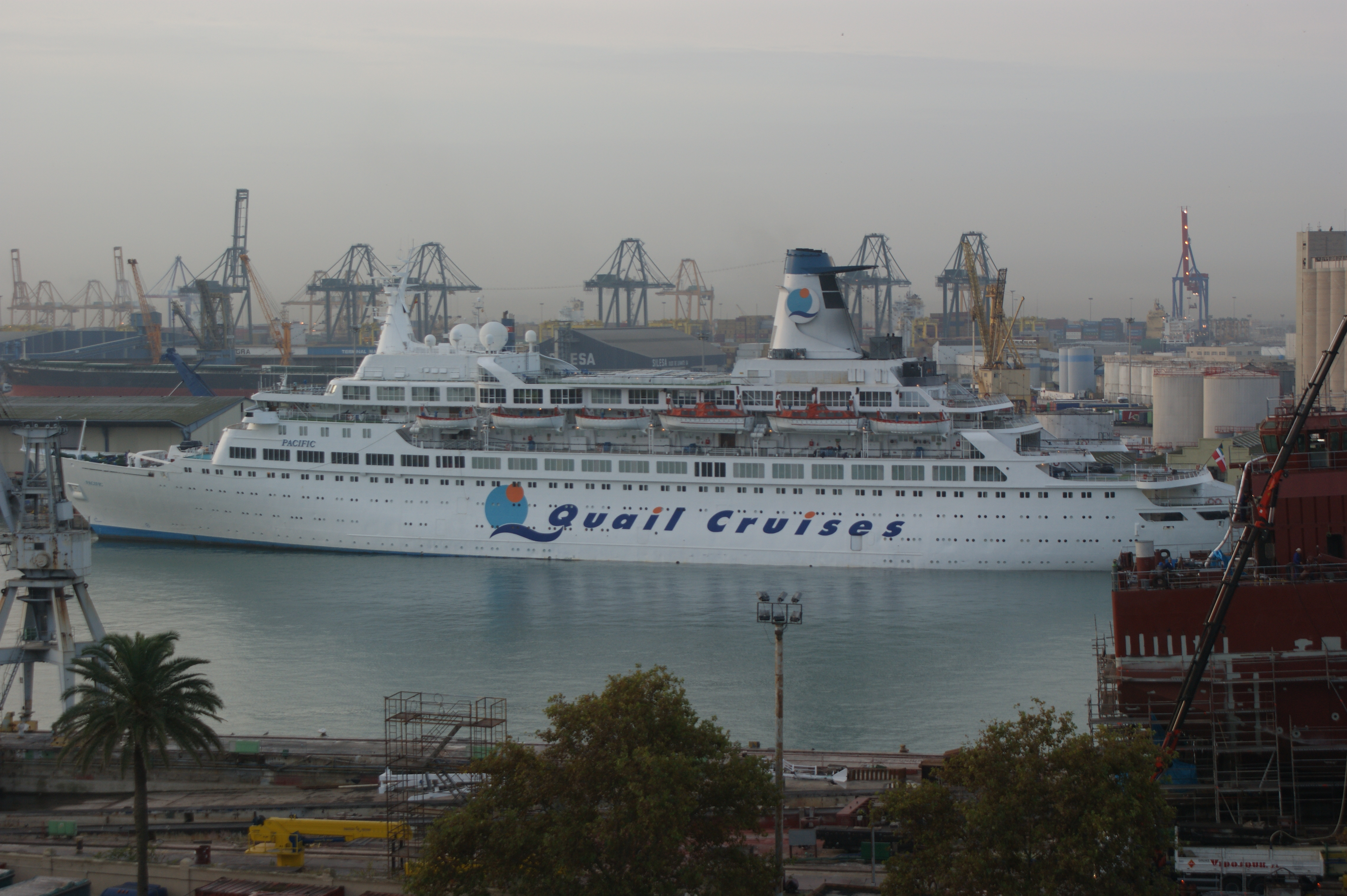 The Quail Cruises "Pacific" (formerly "The Pacific Princess") arrested by the Spanish Authorities at Barcelona having failed certain safety tests. Information about Pacific may be found at IMO 7018563. A ship can change her name and flag state through time, but the IMO number remains the same through the hull's entire lifetime. Therefore, it's useful to identify a ship through her IMO number.